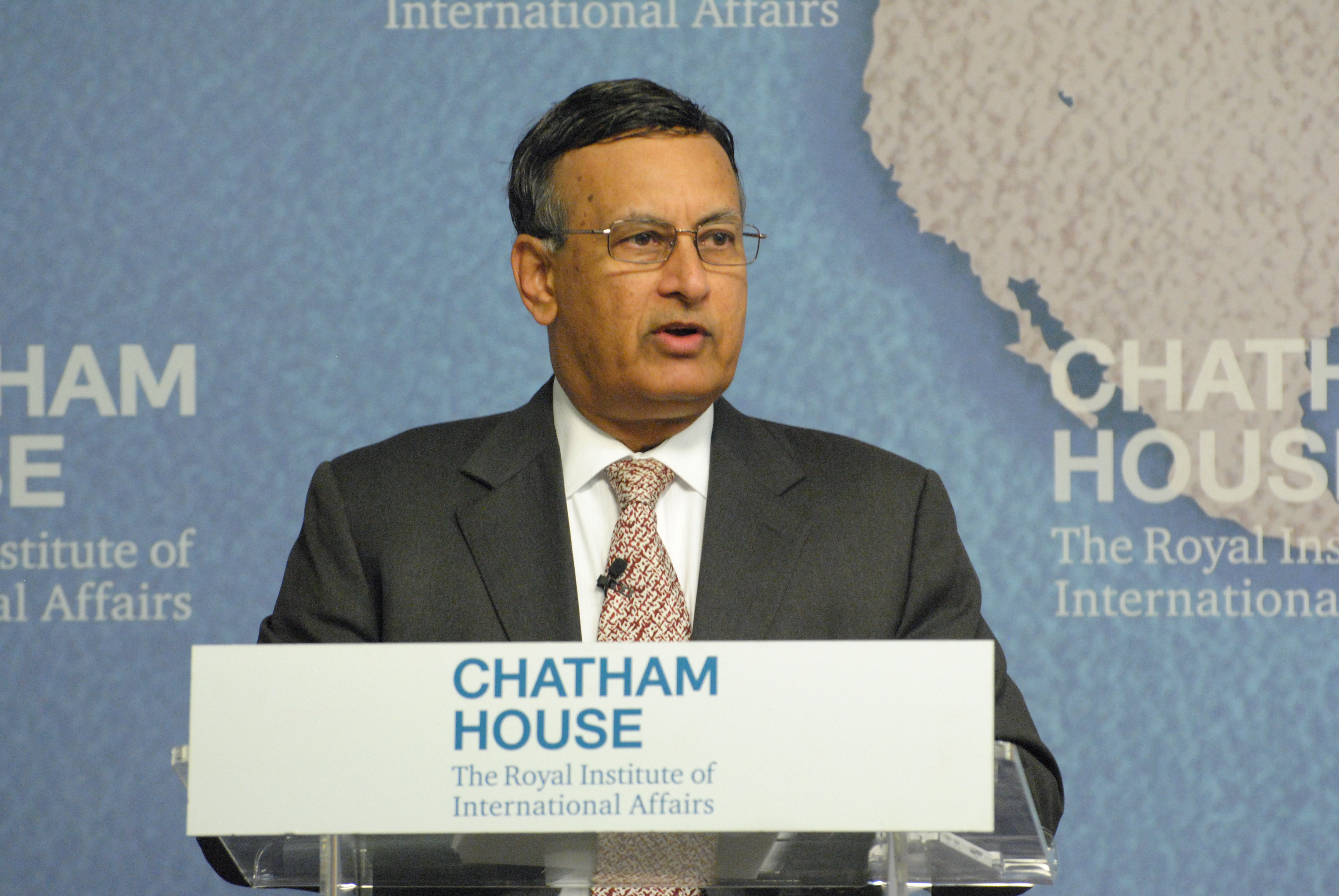 Pakistan, Afghanistan and a History of Mistrust, 2 March 2015, cht.hm/1GLKRq9